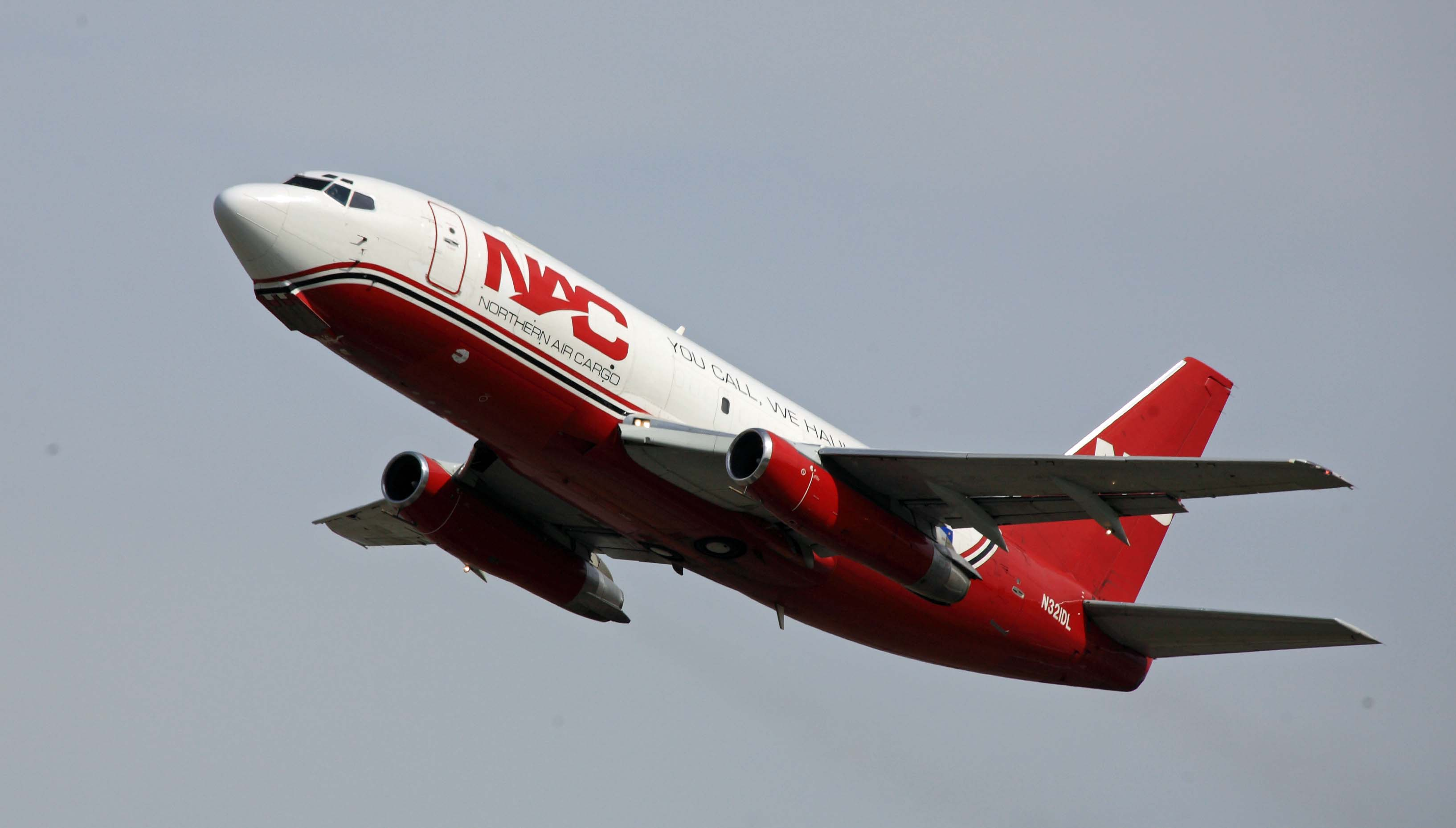 I took this photo in between working on the New York Times Sunday crossword puzzle or reading travel books near Anchorage International Airport in June 2011.